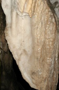 Flowstone Drapery in Middle Cave, Timpanogos Cave NM